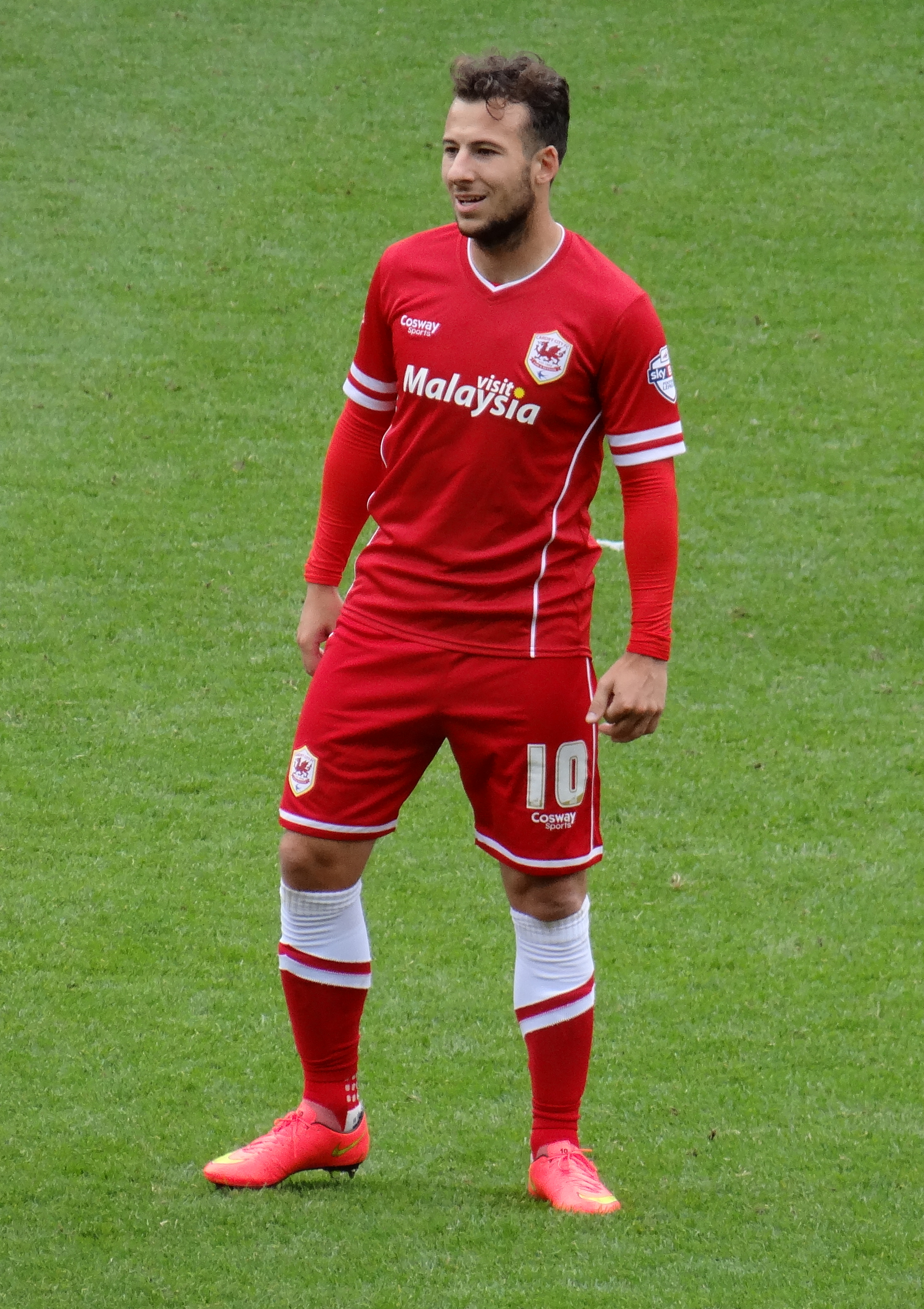 Adam le Fondre playing for Cardiff City against Huddersfield Town